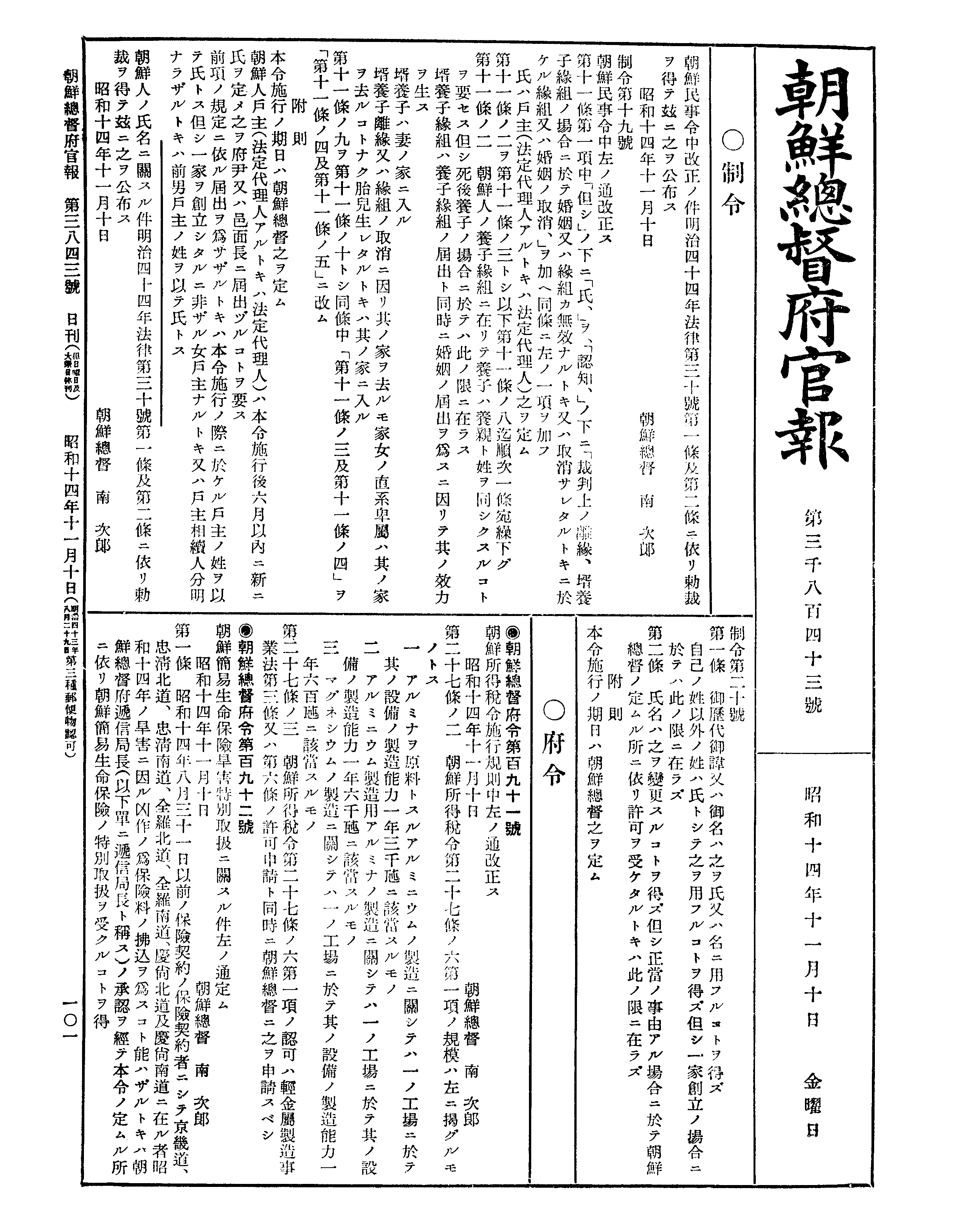 This page proclaims ordinances implementing sōshi-kaimei in Korea under Japanese rule.